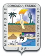 Coats of arms of Comondú, Baja California Sur (Mexico)